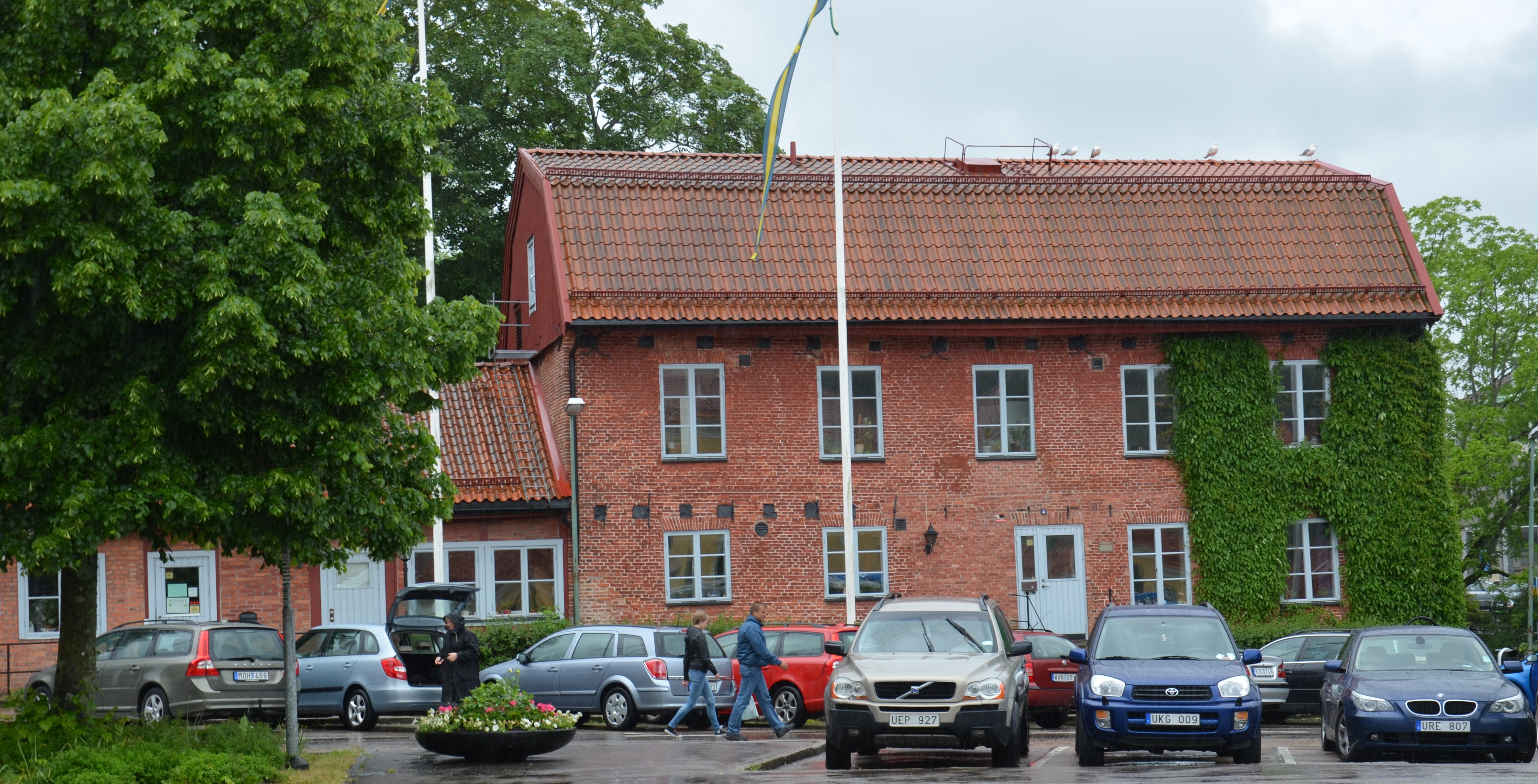 Hasselbackshuset i Uddevalla